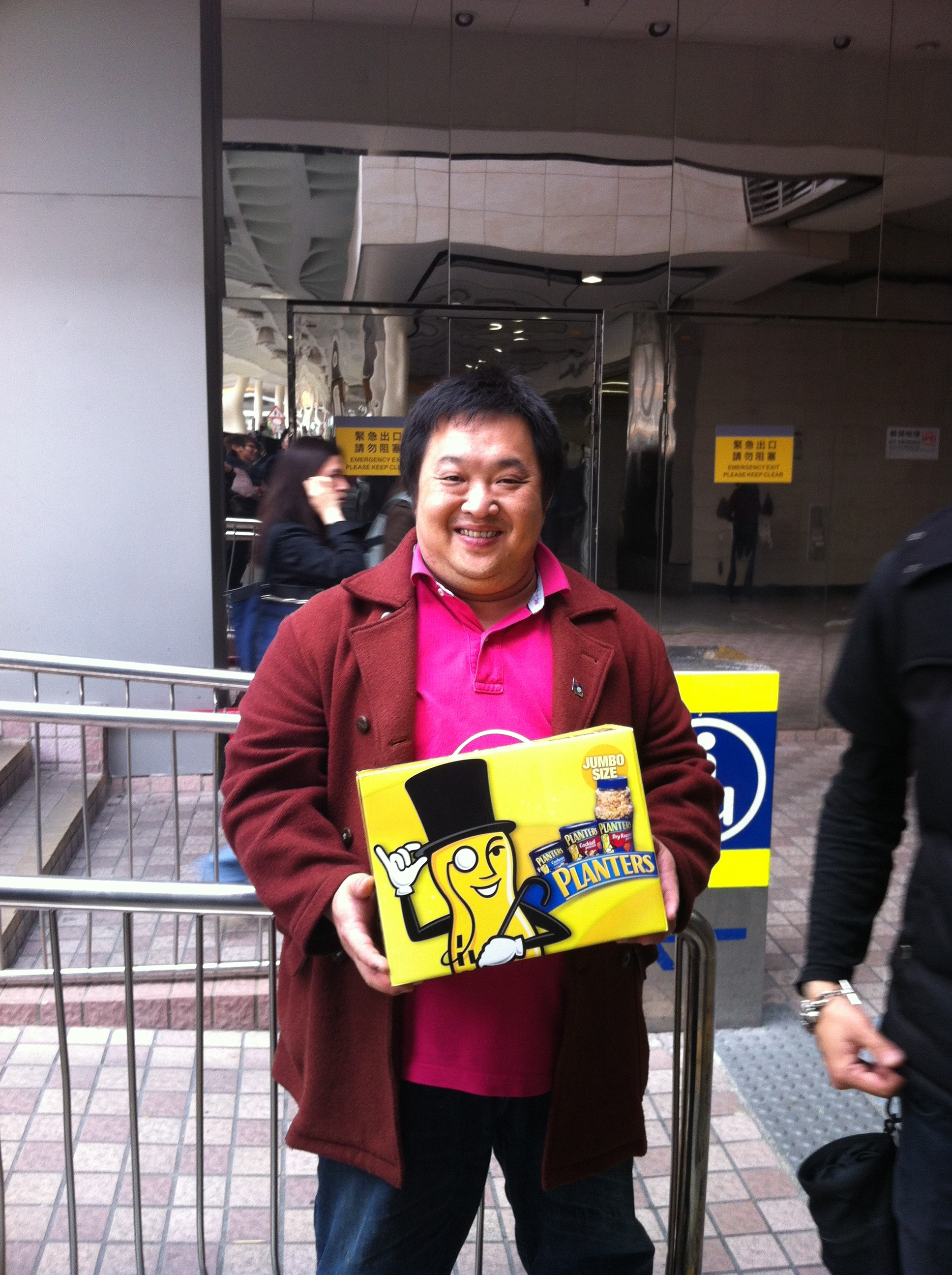 Dickson Wong accounting period before the Mong Kok Station pictures